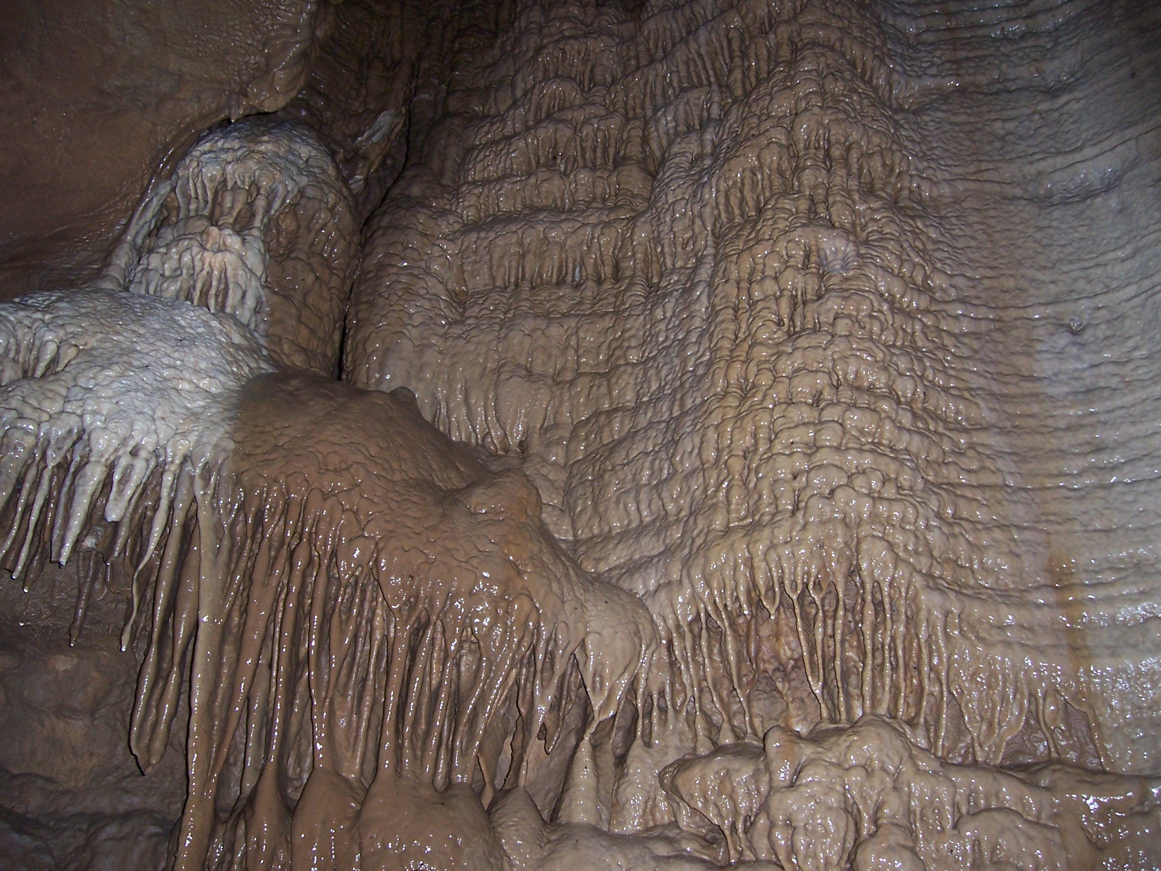 Drapery and flowstone in Chimney Dome (Figure provided by A. Frierdich)